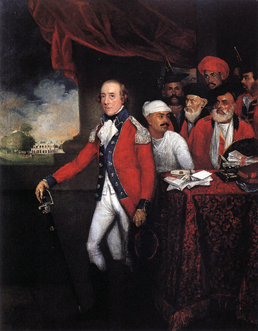 Colonel William Kirkpatrick, ca 1799, was the first Englishman to visit Kathmandu in 1793. He wrote a book about the journey entitled An Account of the Kingdom of Nepaul.